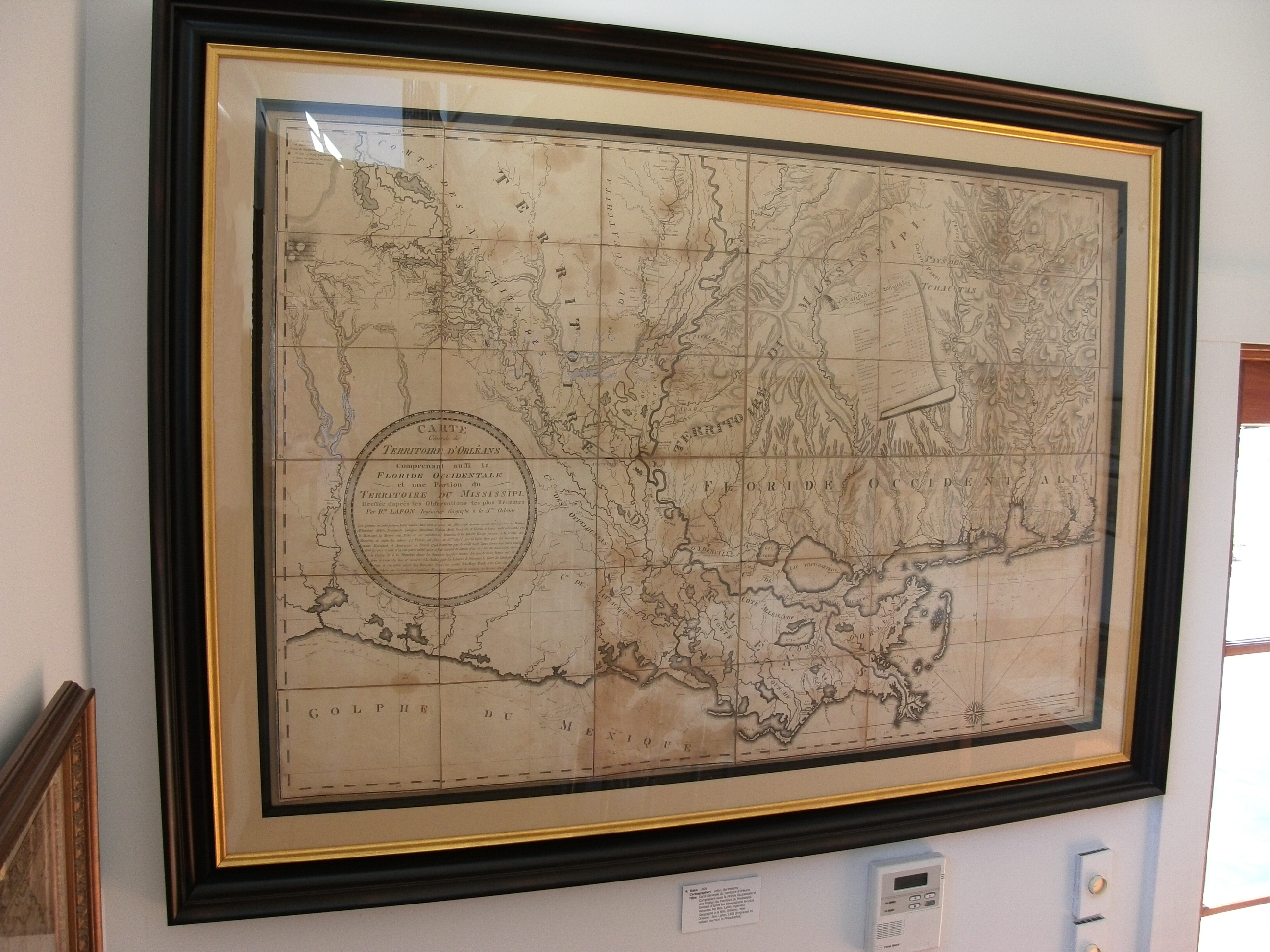 1541 Reduction in size of a 1513 Martin Waldseemuller map of Florida and Mississippi Territories